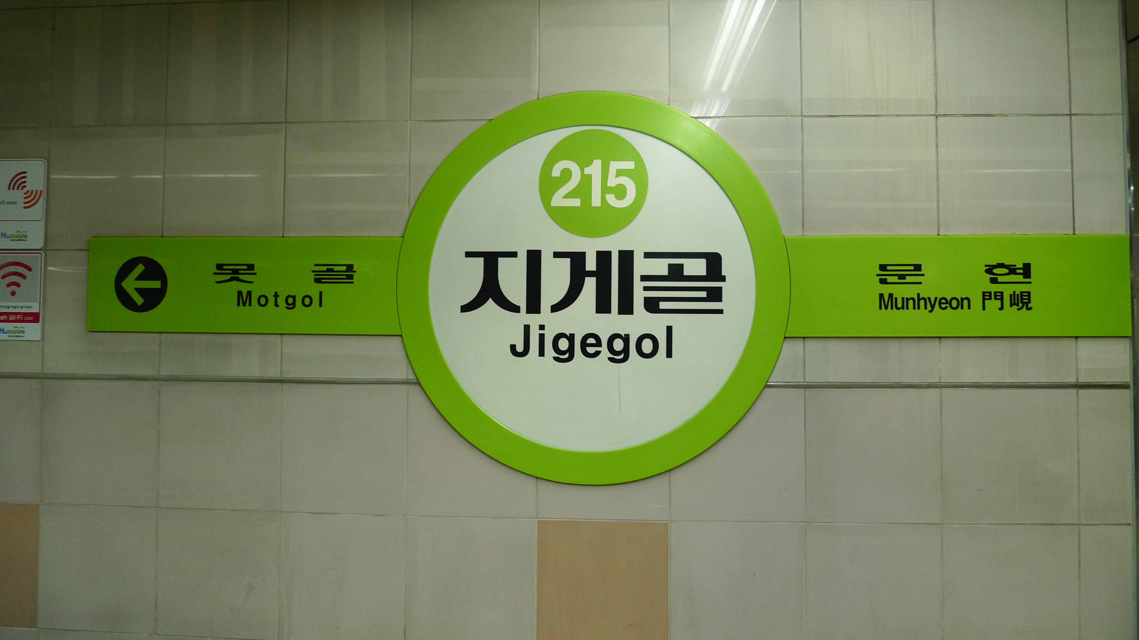 Busan Metro Line 2 Jigegol Station's name plate.